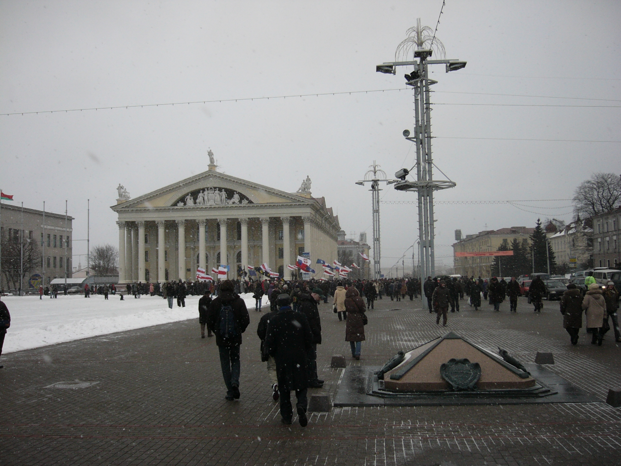 Meeting of oposition after presidental election. October square, March 21 2006 Photo by Redline